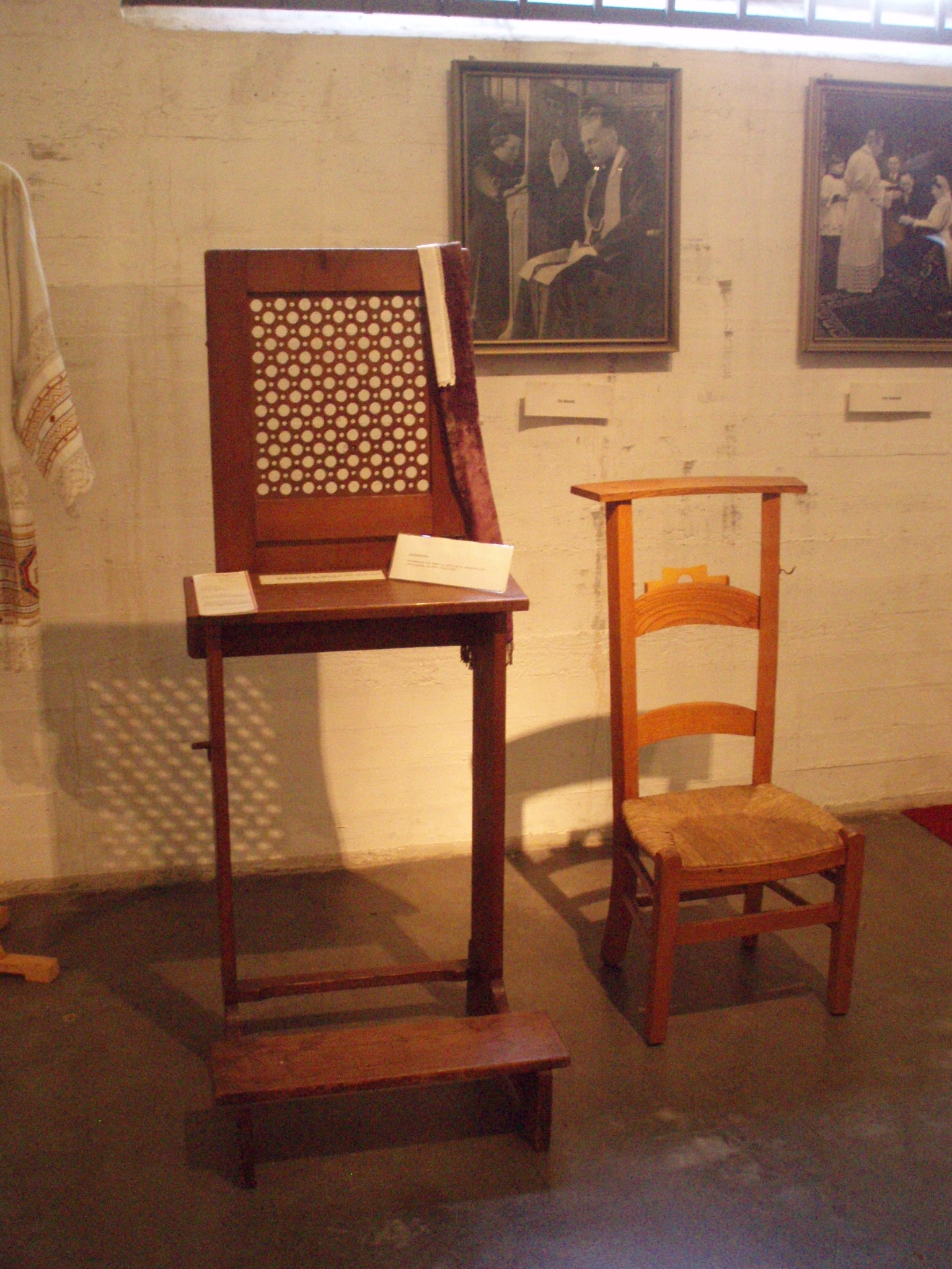 Confession, with a picture of Martien Coppens, in museum Kijk-je kerk-kunst, Gennep, Netherlands